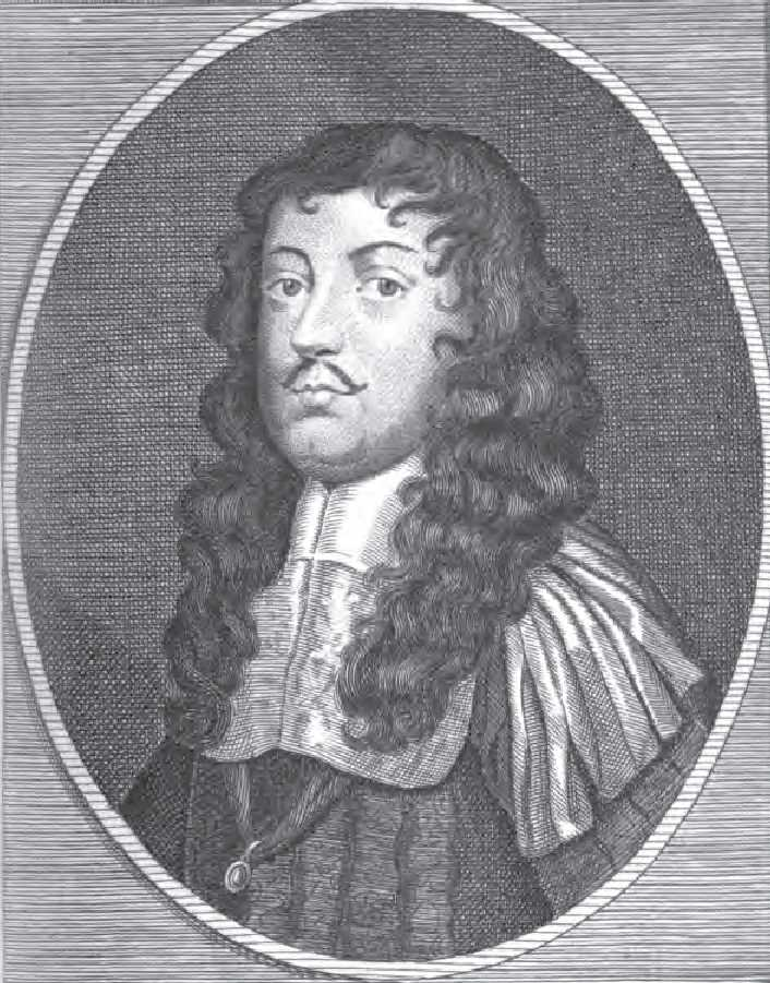 Admiral Christopher Myngs